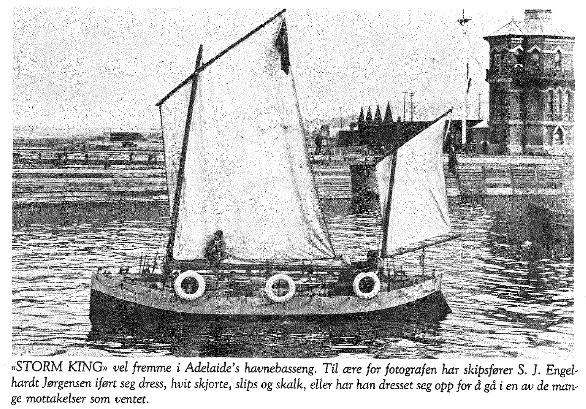 Storm King at port Table Bay, Cape Town, March/April 1890. The Clock Tower completed in 1882, housing the Port Authority, to the right. The information, written in Norwegian, regarding arriving at port in Adelaide, is not correct. "OBW".